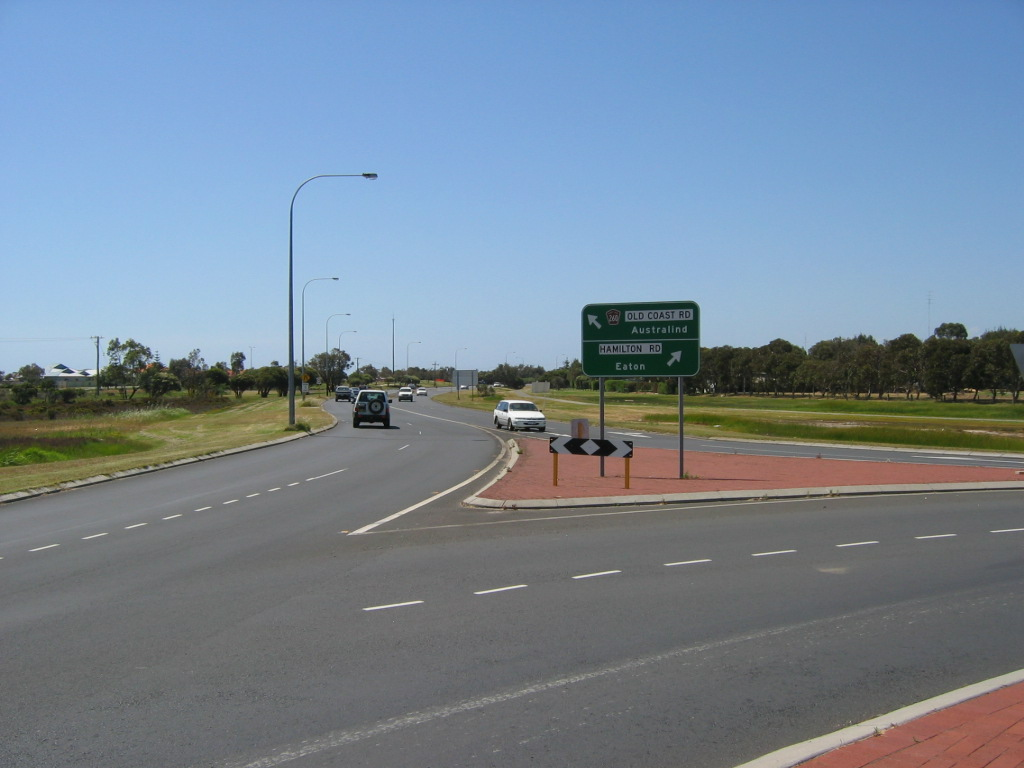 Old Coast Road in Pelican Point / Eaton, Bunbury, Western Australia, heading north.